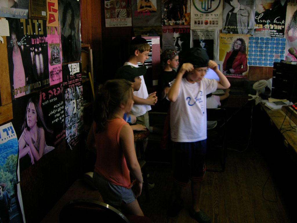 A few campers can be seen in the radio room at WCRP, the radio station of Camp Ramah in the Poconos